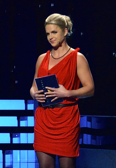 Frida Wallberg at the Swedish Sports Gala at the Ericsson Globe in Stockholm, January13, 2014.